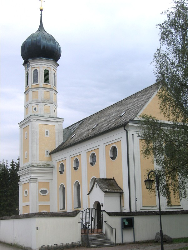 Hofolding, view of Holy Cross Parish Church from north-west.